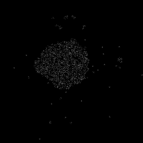 A pattern in the Critters block cellular automaton rule